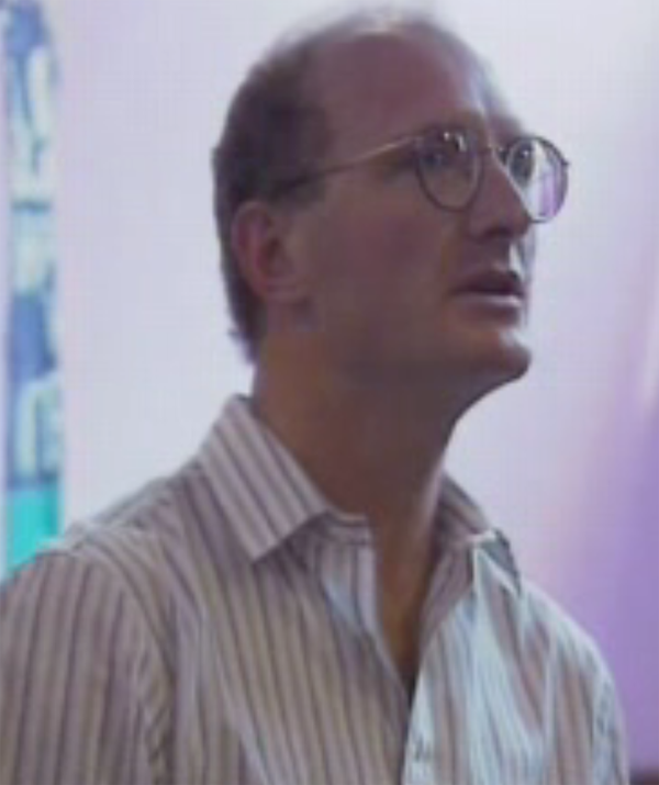 Justice Edwin Cameron\Edwin Cameron at the first gay march for freedom in Africa on October 13, 1990 in Braamfontein, Johannesburg, South Africa